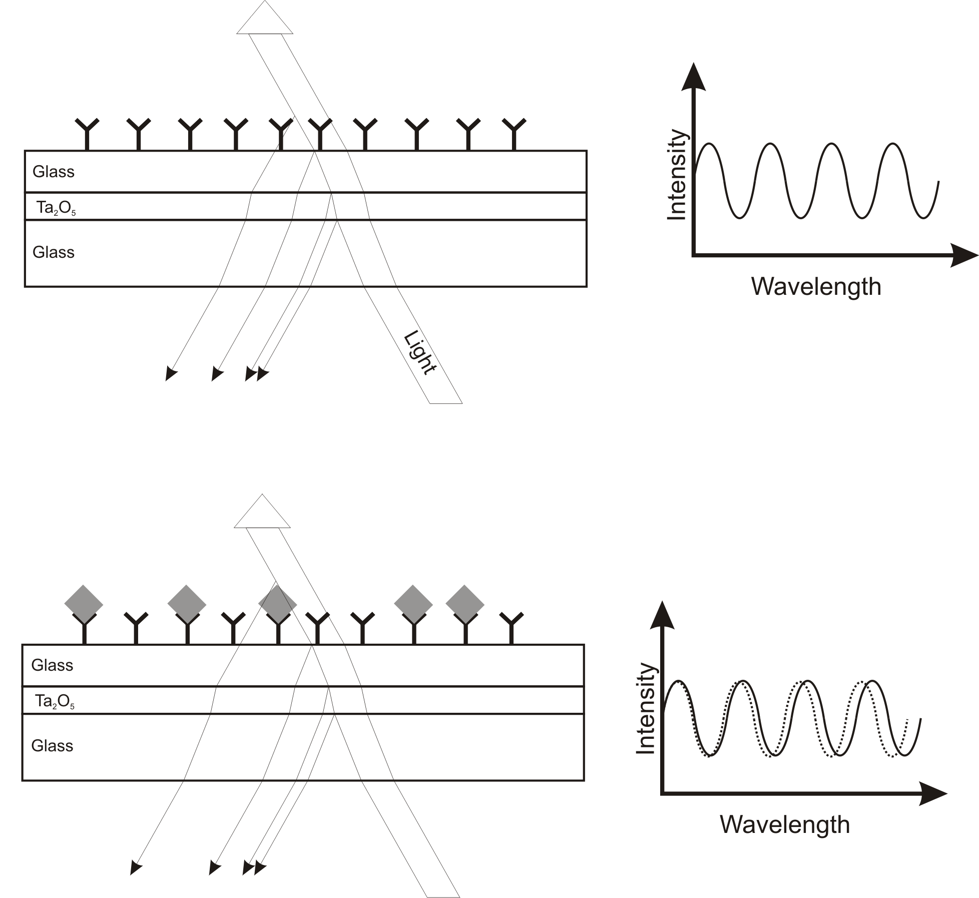 Schematic drawing of a multilayer system including multiple reflections and the correlating shift of the interference spectra